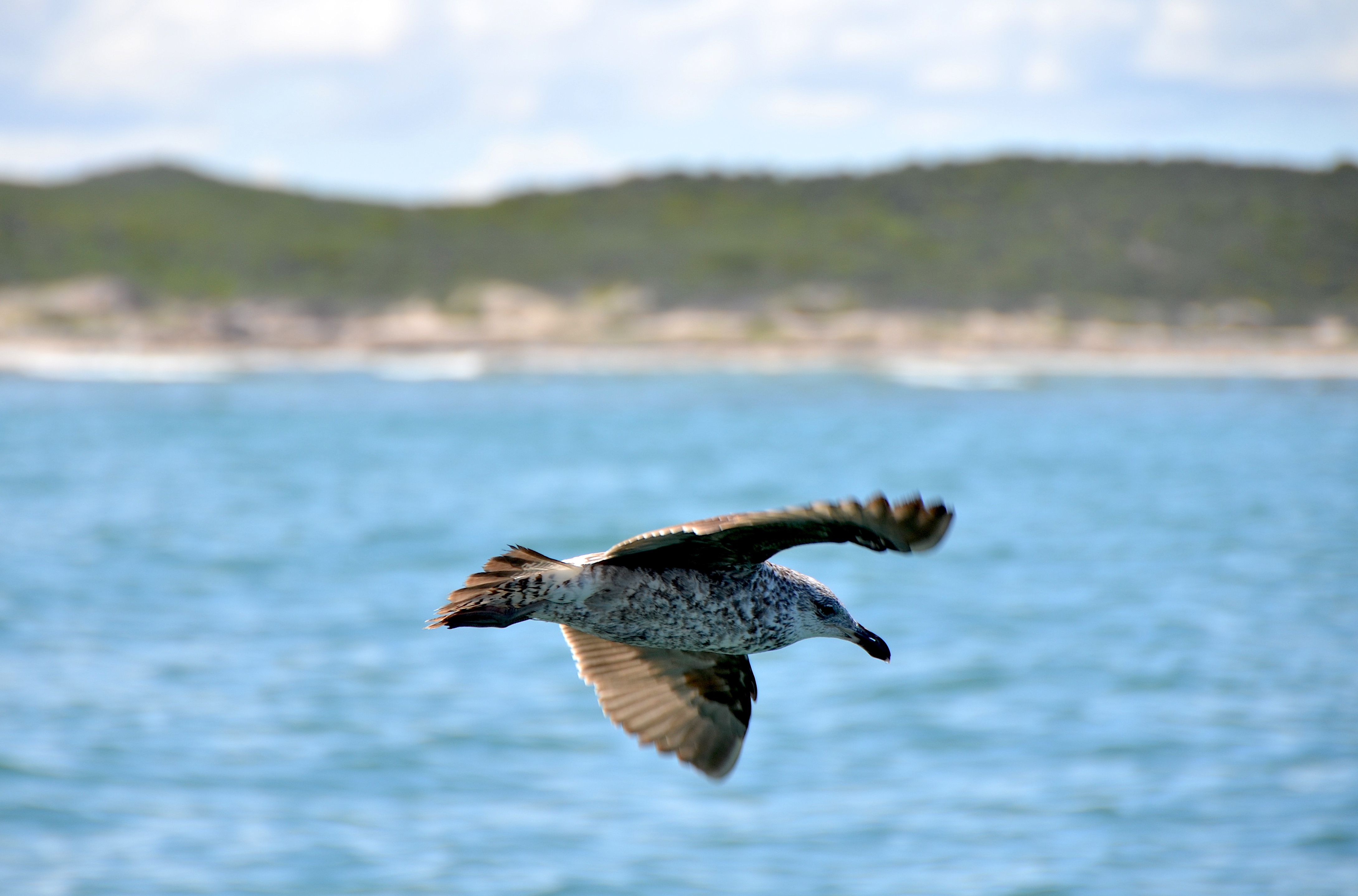 Juvenile Cape gull in South Africa